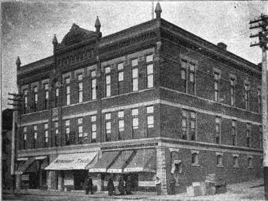 Masonic Hall Cadillac MI c1900 NRHP #94000747